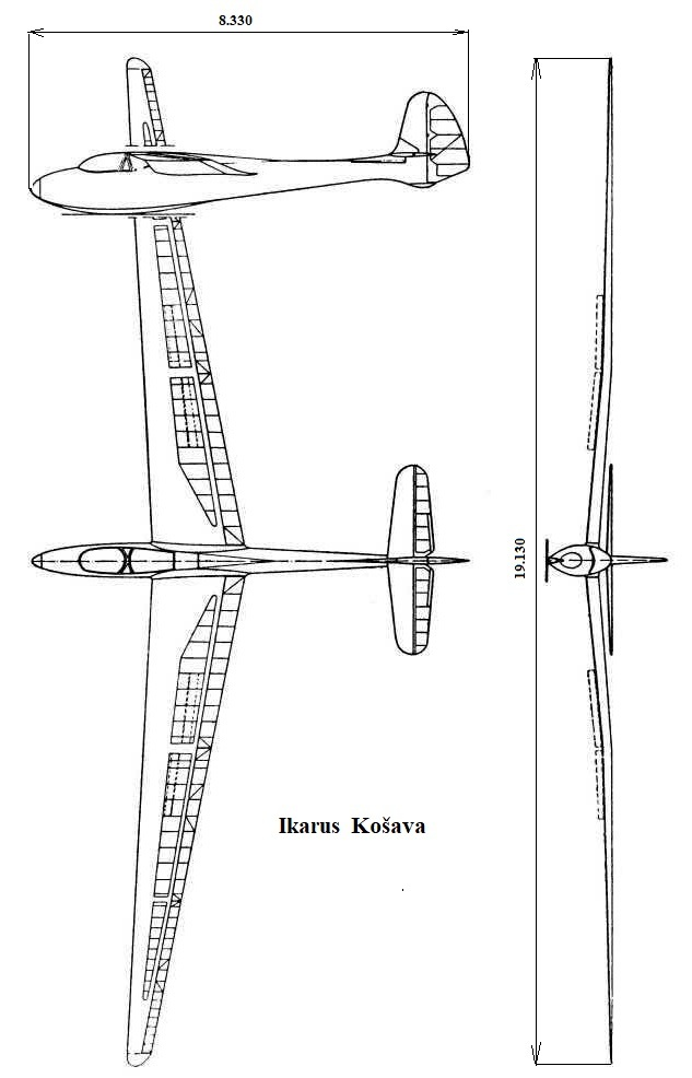 Yugoslav Glider Ikarus Košava 1